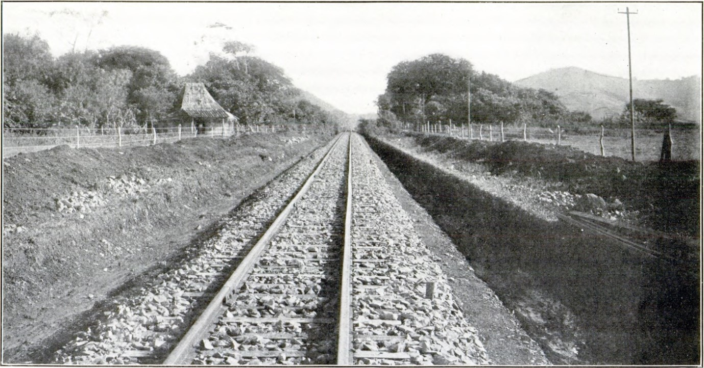 Rock-ballasted roadbed on Boquete Line, north of David, Panama